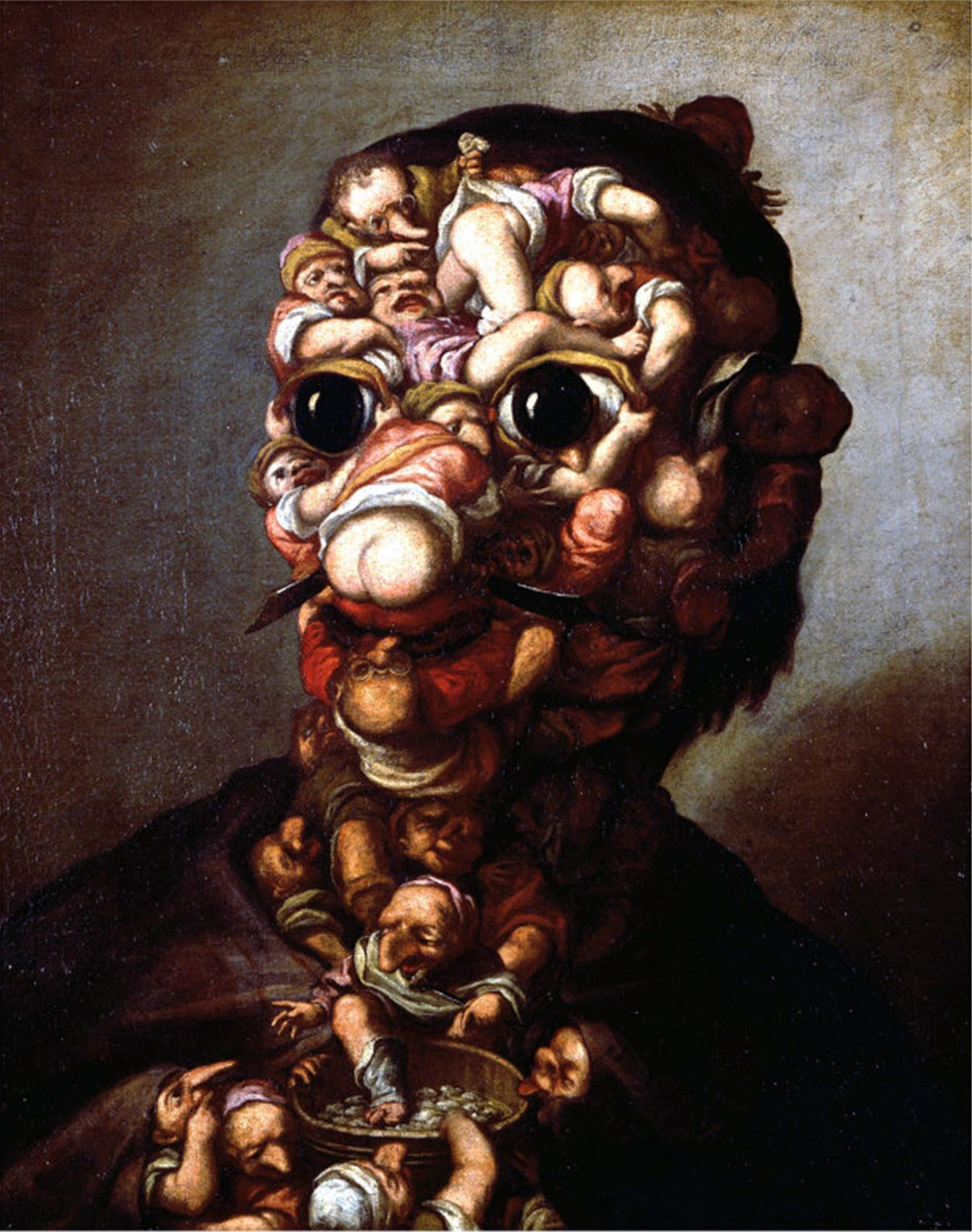 A Head Formed out of Pygmieslabel QS:Len,"A Head Formed out of Pygmies" label QS:Lfr,"Une tête formée par une Bambocciata de pygmées"